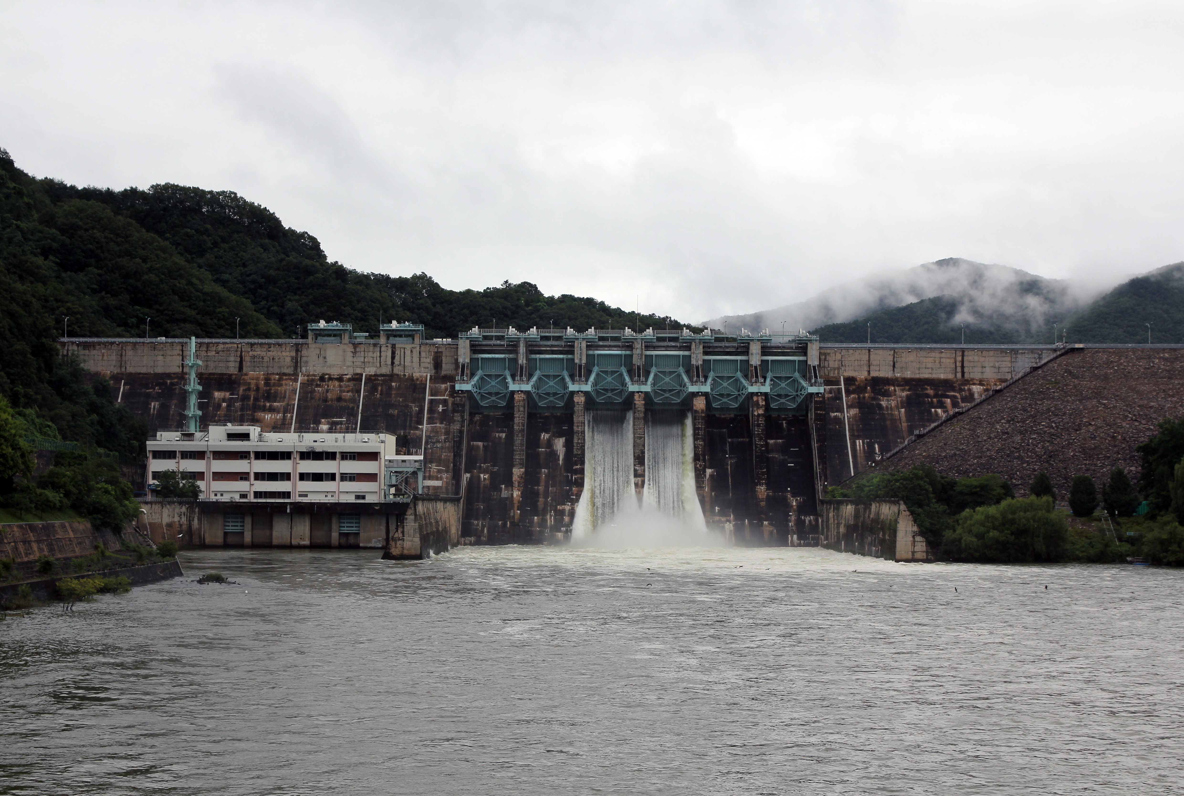 Daecheong Dam after rain